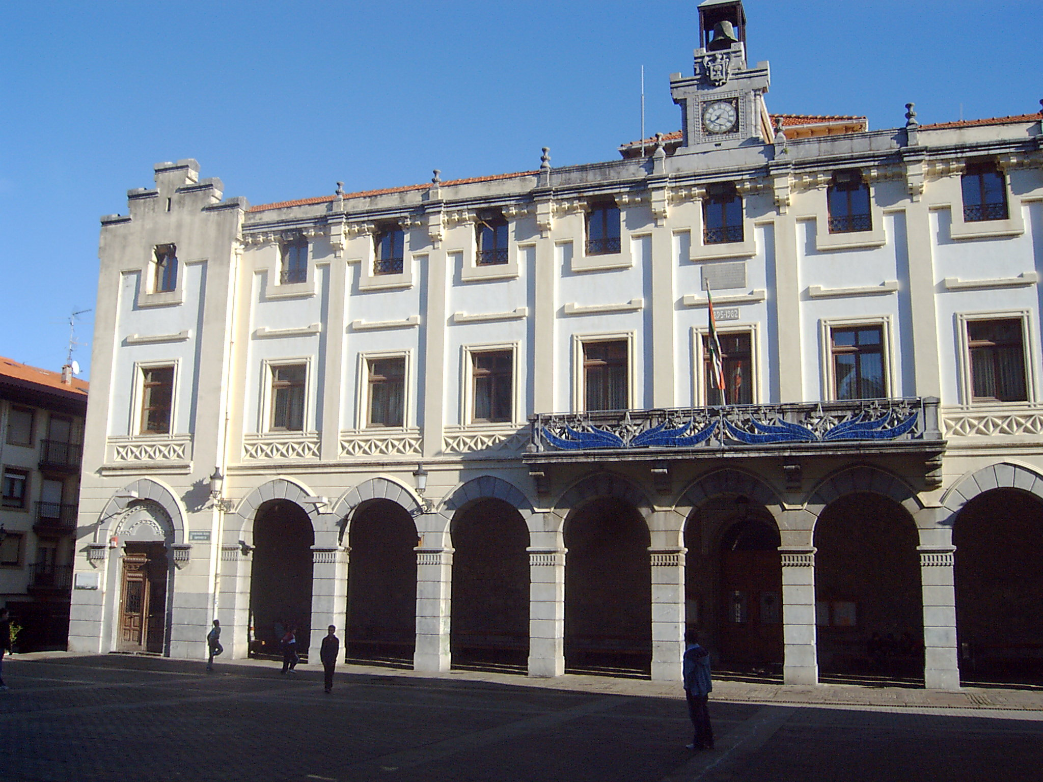 Mundaka city hall